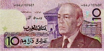 10 Dirham